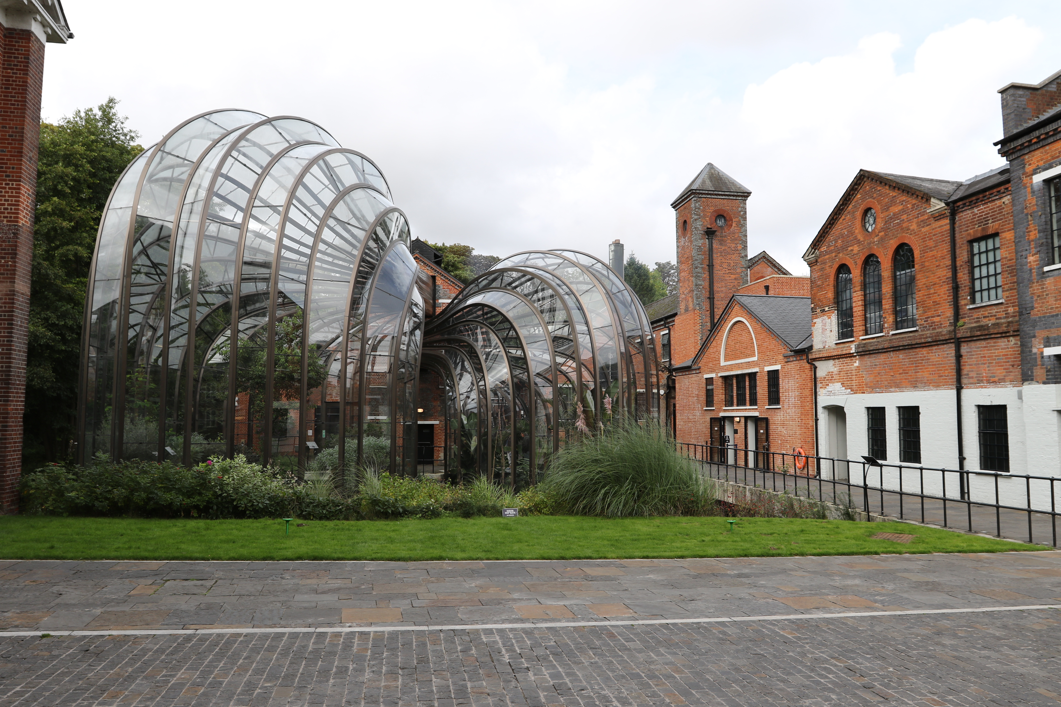 The Thomas Heatherwick extension